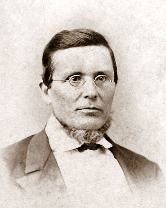 Thomas Hill Watts from Civil War CDV